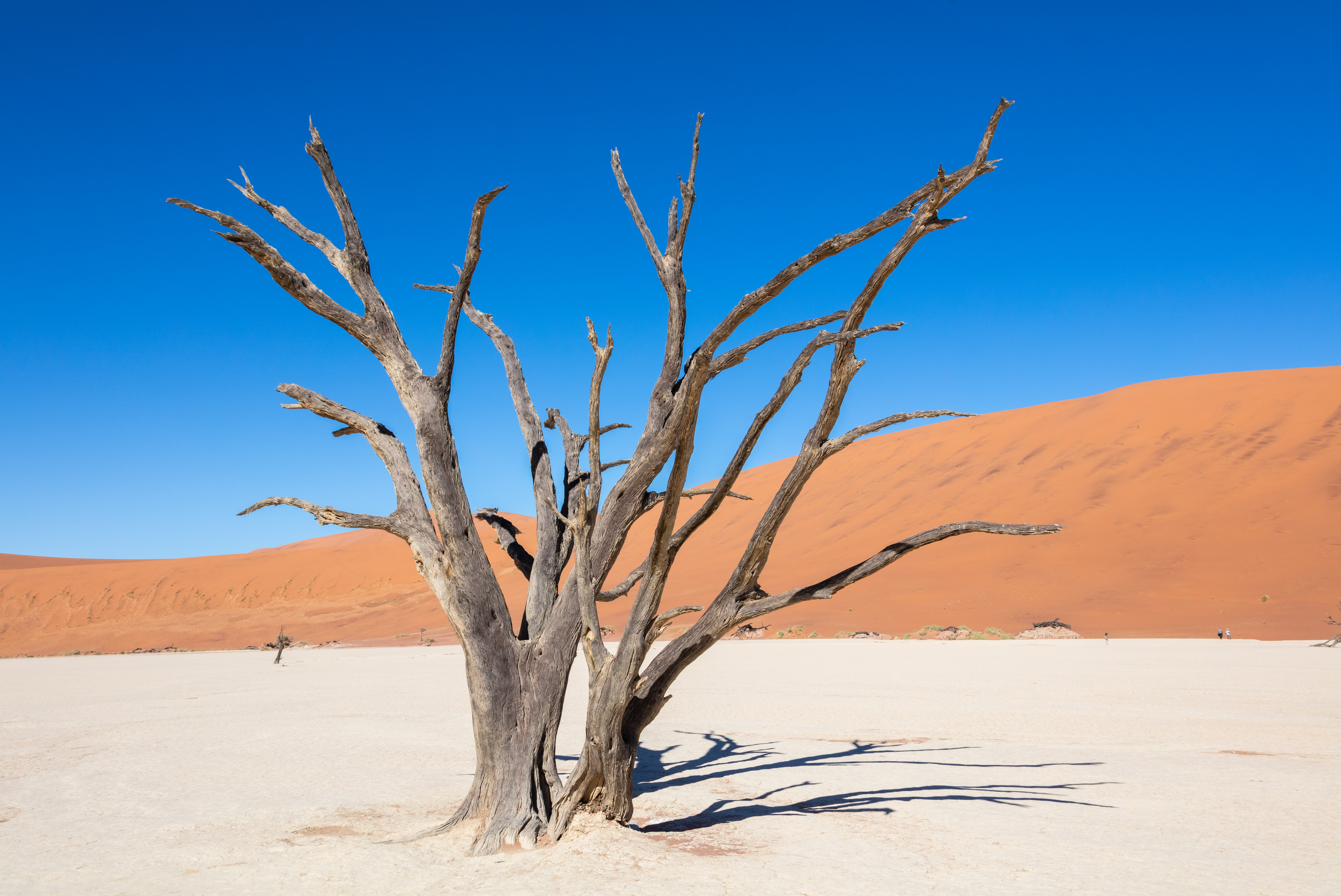 Dead camel thorn (Vachellia erioloba), Deadvlei, Namib-Naukluft Park, Namibia.